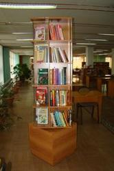 Reading Rooms Division (Qostanay Oblast Universal Scientific Library. Leo Tolstoy)